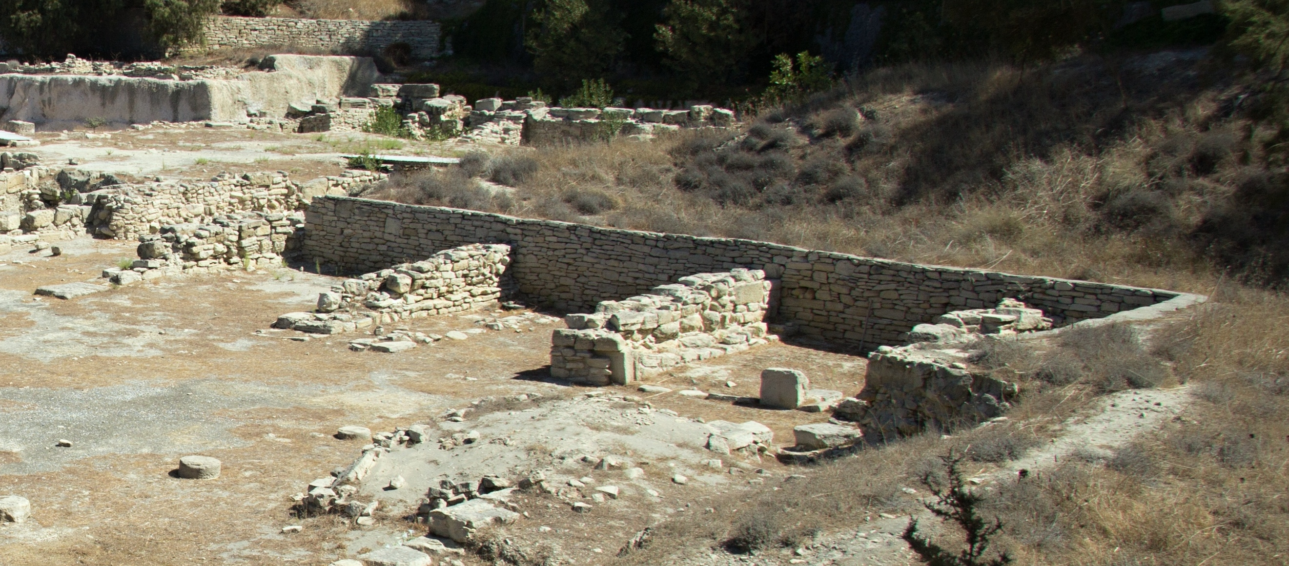 Kommos, Crete.